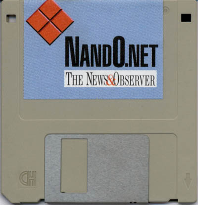 Scan of diskette from Nando